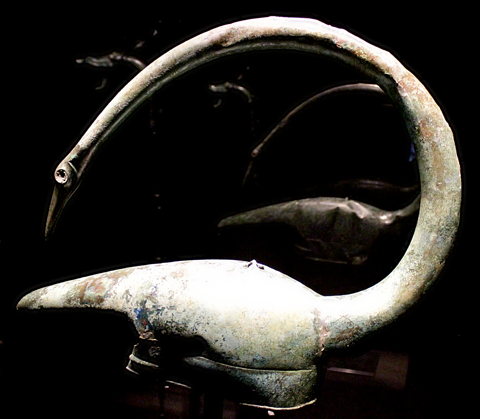 Helmet in the shape of swan found in the Gallic sanctuary of Tintignac (Corrèze). Cité des Sciences et de l'Industrie (Paris), "Les Gaulois, une expo renversante", from 19-10-2011 to 02-09-2012.